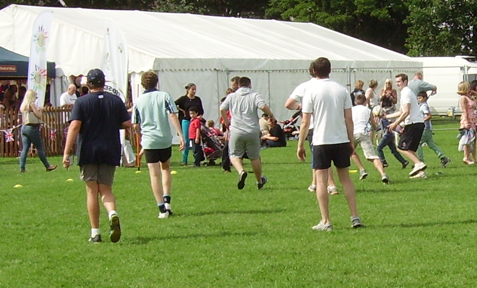 Touch rugby football being played in Russell Park at the 2012 Bedford River Festival.